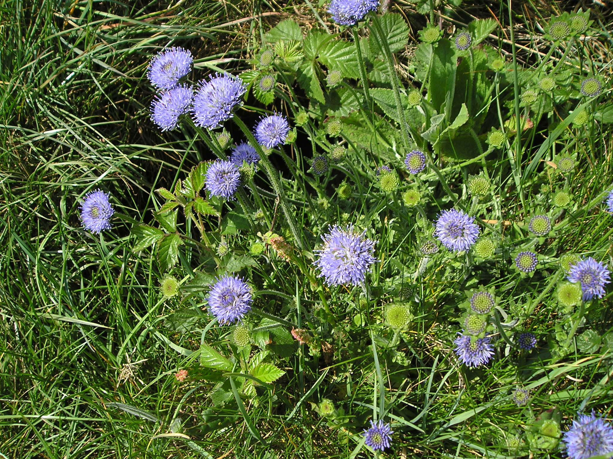 Sheepsbit scabious, Jasione montana.